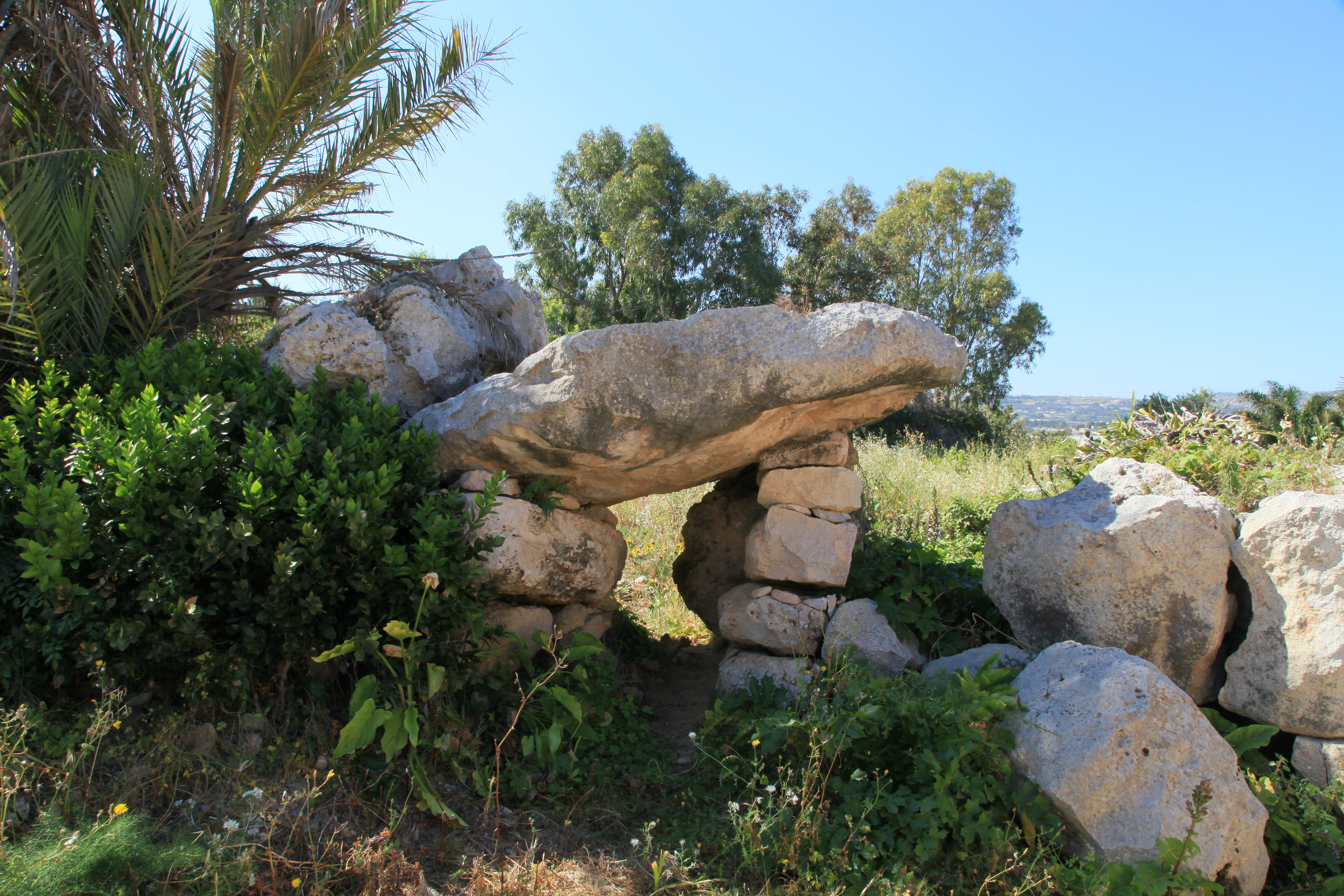 Tal-Qadi Temple at Triq l-Imdawra in Naxxar, Malta